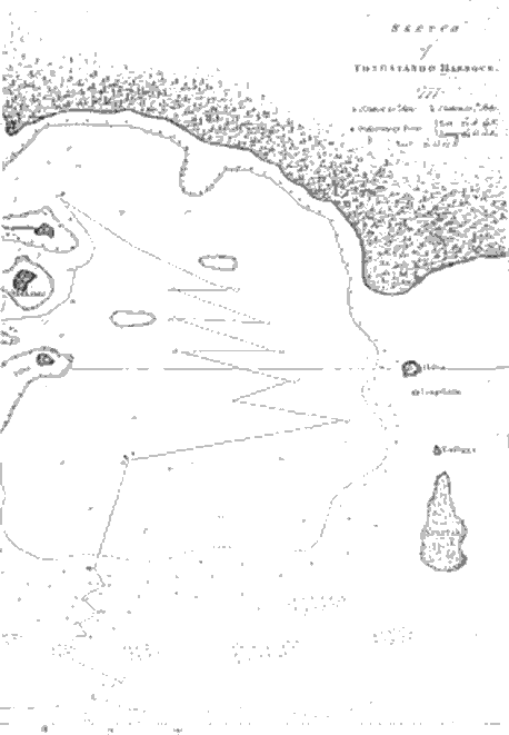 This is the first recorded sketch of the Bay of Nuku'alofa, Capital of Tonga by Captain James Cook during his last visit to Tonga in 1777. This is copied from the book as mention in the source: Captain James Cook, A Voyage to the Pacific Ocean, 1783, page 277. This book is available on Google Books and available on the Public Domain.